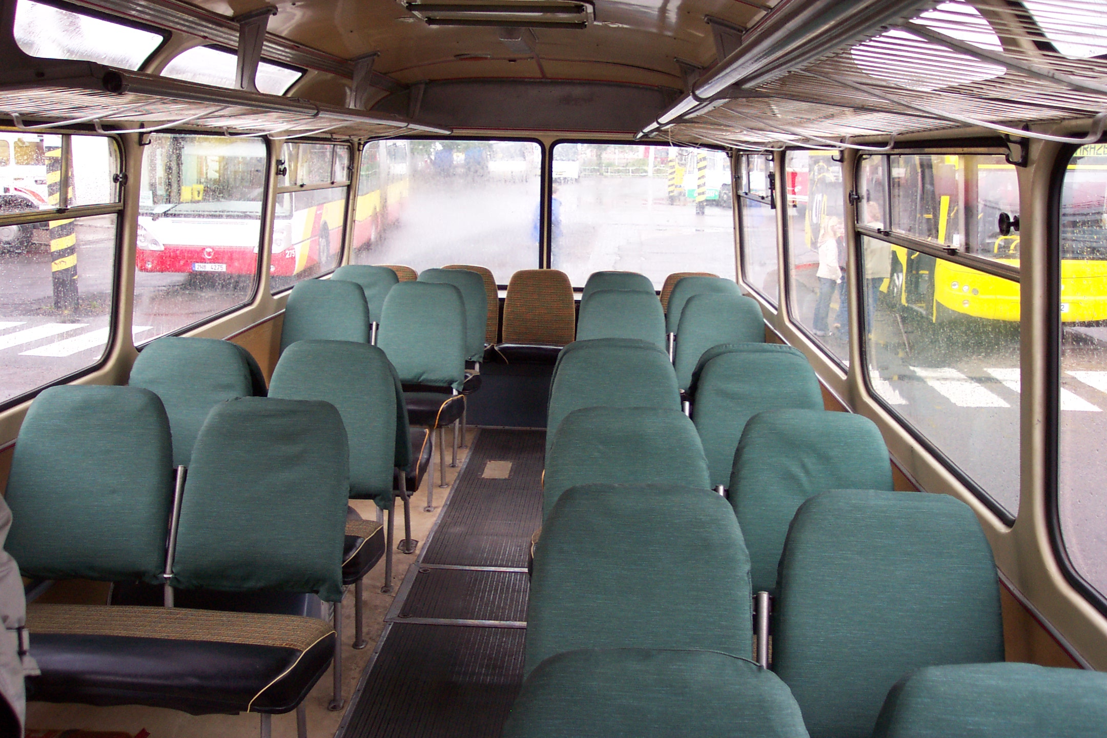 Bus type Karosa ŠL 11 at the 55 years of trolleybus transport in Pardubice